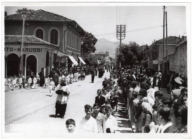 "The Corpus Christi procession in Scutari, photo, undated (1939-1940), 183x130 mm. On the left is the building housing the studio Marubi.